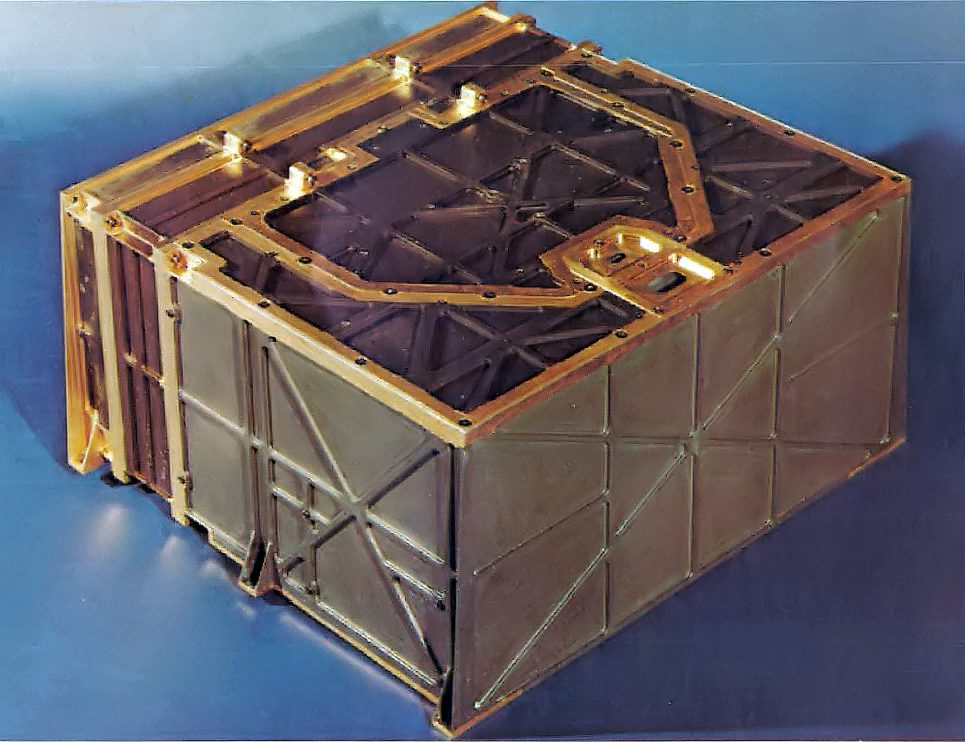 A plasma analyzer peers through a hole in the large dish-shaped antenna to detect particles of the solar wind originating from the Sun.